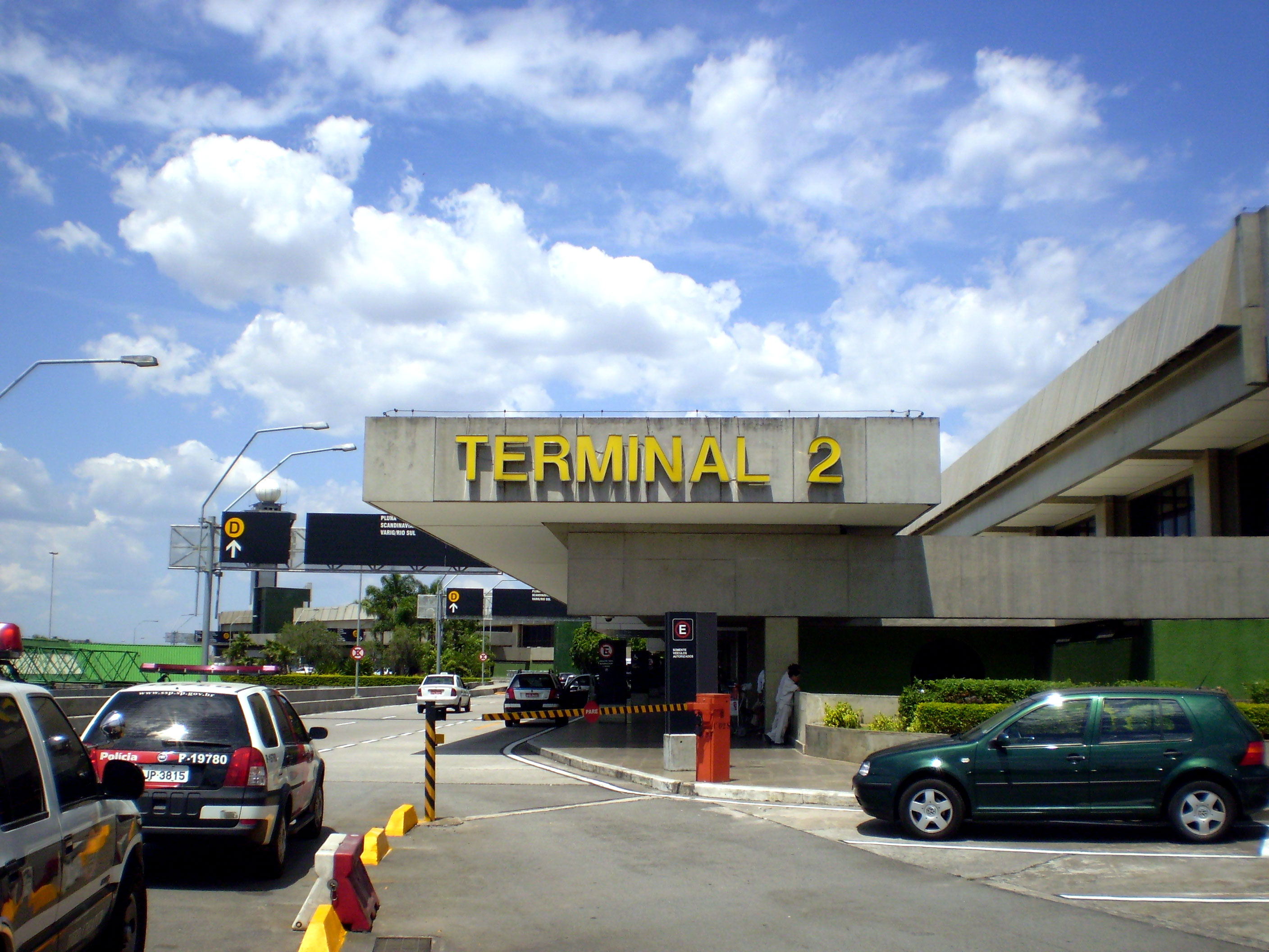 External view of São Paulo/Guarulhos International Airport's Terminal 2